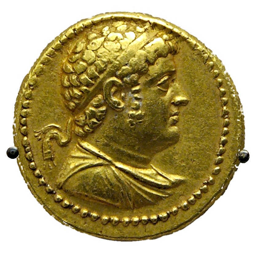 Gold octadrachm issued by Ptolemy IV (r. 221–204 BC).